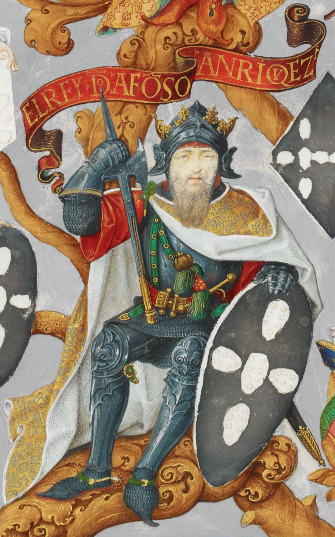 King Afonso Henriques, first King of Portugal, in a 16th century miniature.